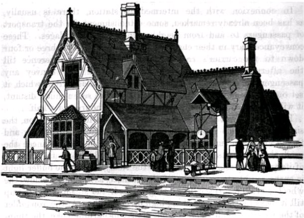 Woburn Sands railway station - circa 1852 Our Iron Roads: Their History, Construction and Social Influences], by Frederick S. Williams (1852), pp128-129.